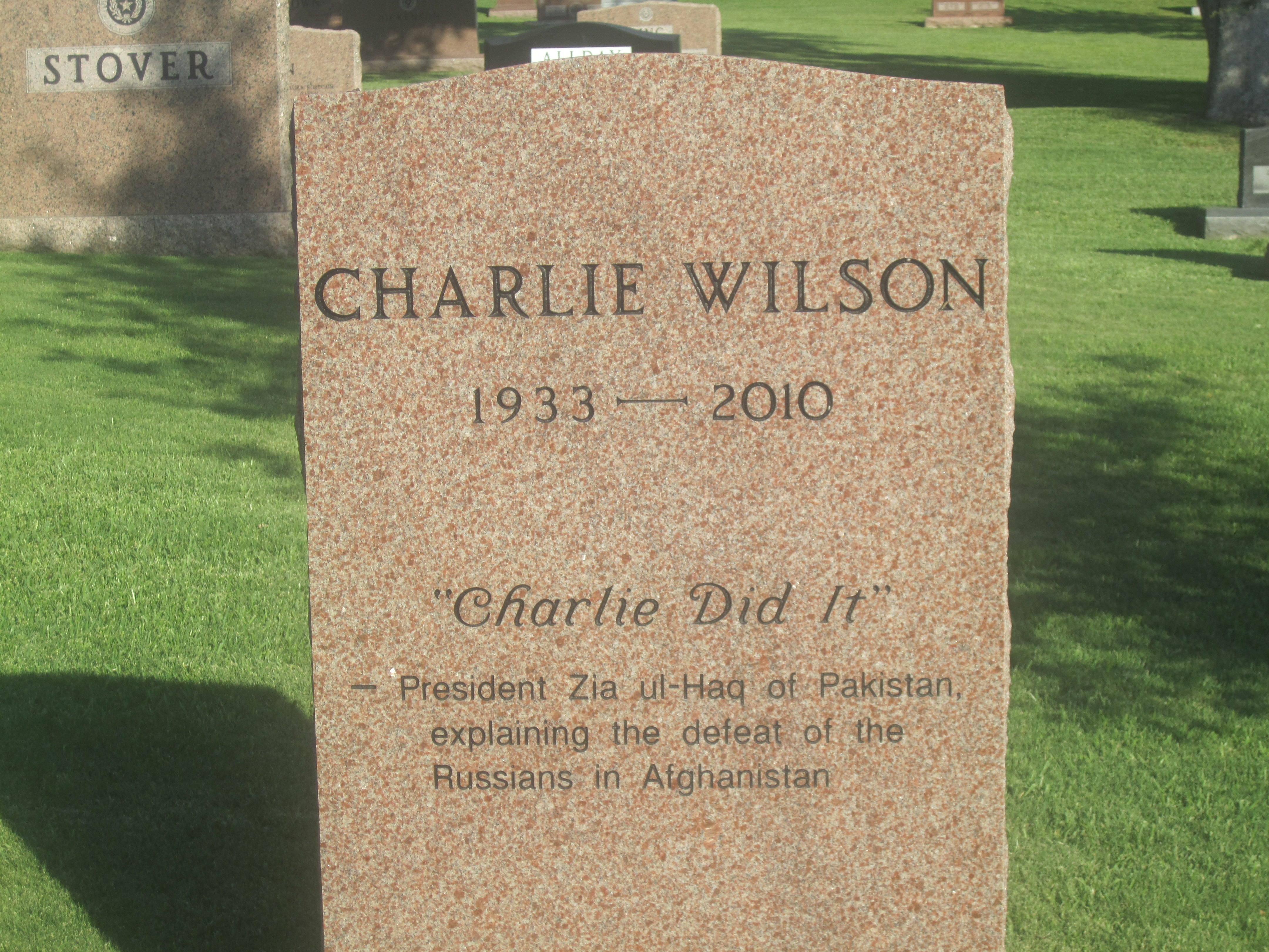 I took photo at Texas State Cemetery in Austin on June 1, 2012, with Canon camera. Billy Hathorn (talk) 16:24, 28 June 2012 (UTC)